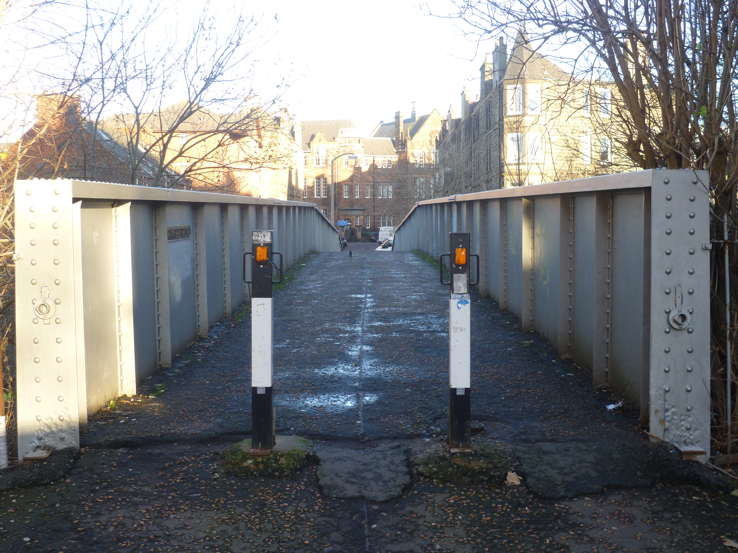 Crawford Bridge from Bothwell Street